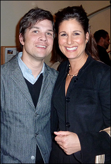 Transport Group Gala. 'Gimme A Break'. 12.7.09. The Asia Society. NYC. Photo By Matthew Blank